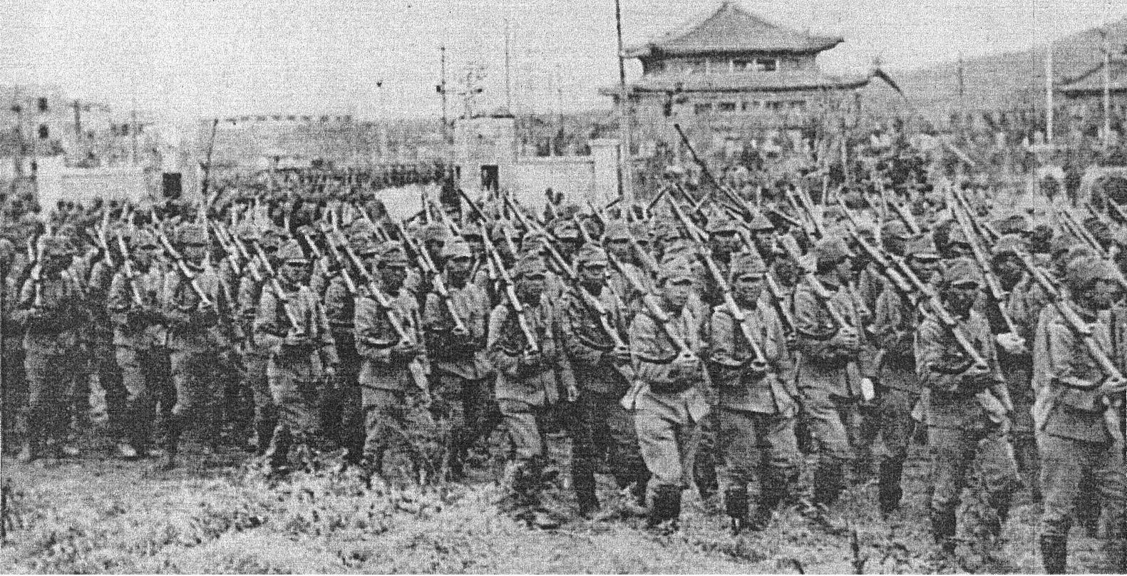 The Japanese army toward the memorial service site of Nanking（December 18, 1937）